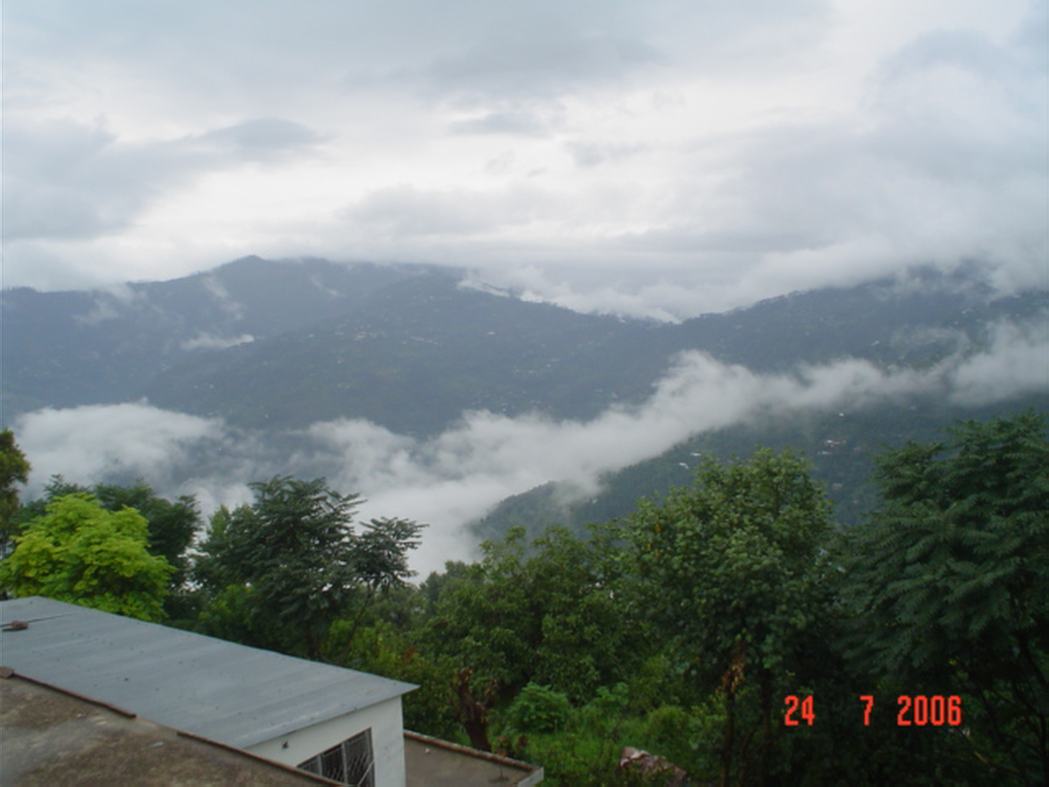 View from a house in Sehr Bagla, Pakistan